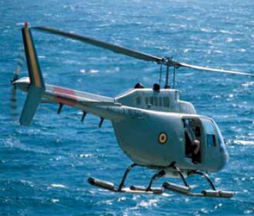 A Brazilian Navy Bell 206 JetRanger, in 2003.